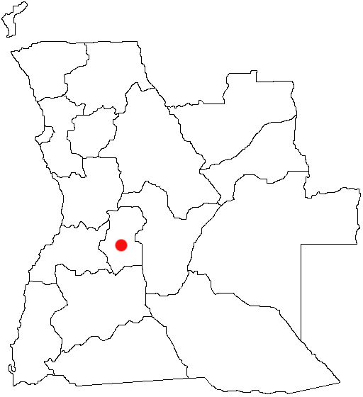 Huambo, Angola Location Map; created with the GIMP. Made by User:Acntx.